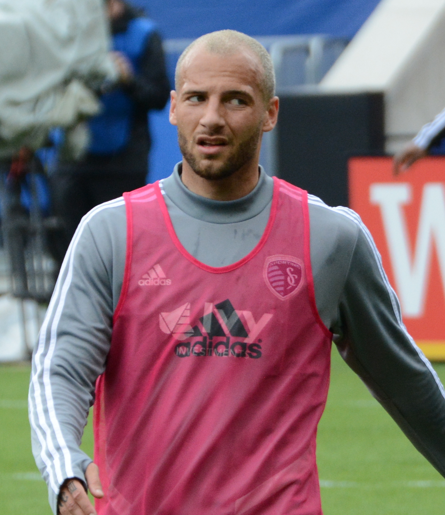 Taken during a Major League Soccer regular season match between FC Cincinnati and Sporting Kansas City at Nippert Stadium in Cincinnati, USA on April 7, 2019.